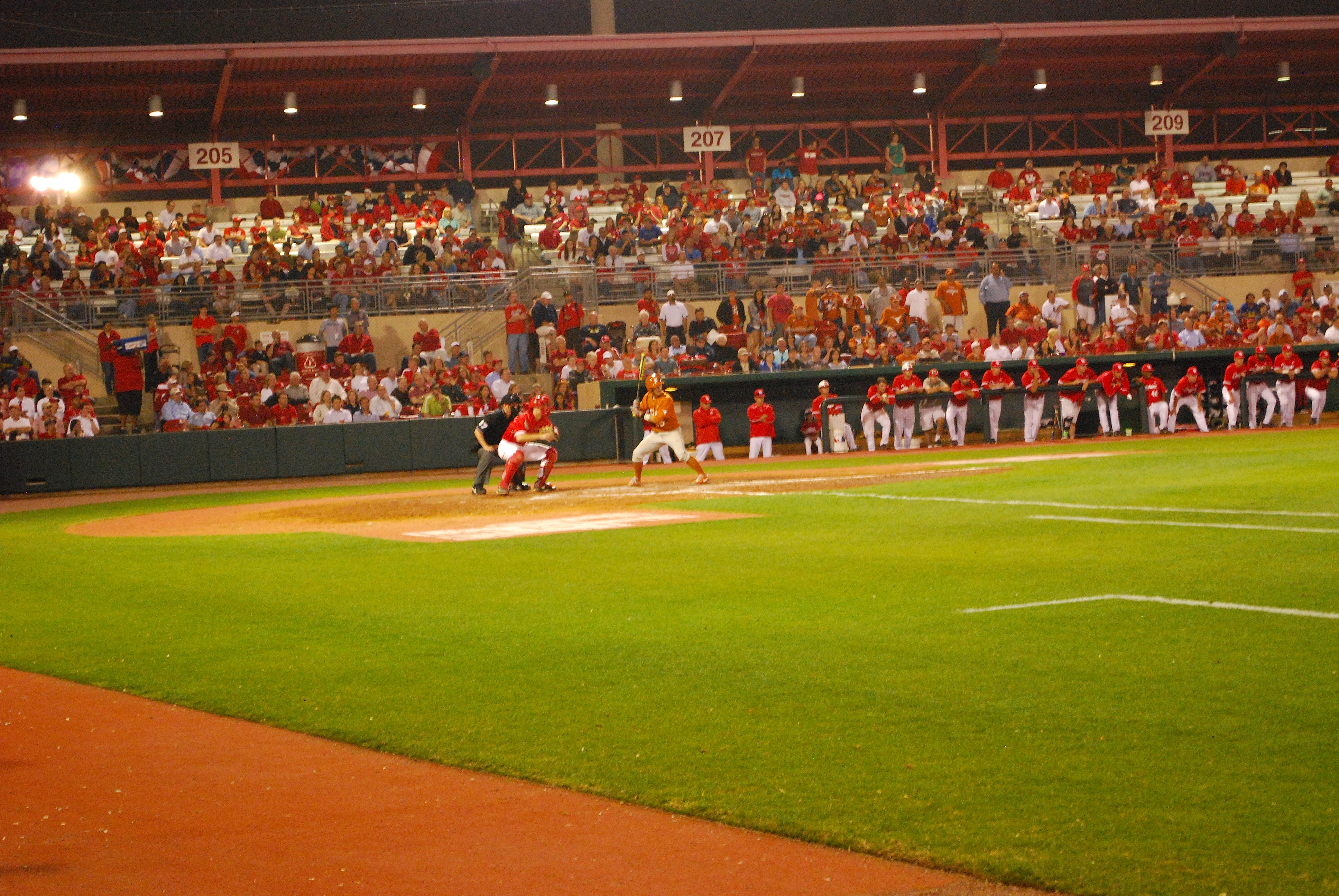 A baseball game at Cougar Field between the Houston Cougars and Texas Longhorns on March 19, 2013. Houston won 4–3.